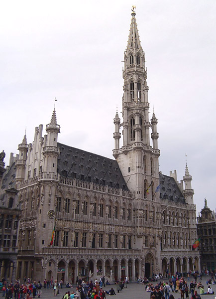 Hotel de Ville, Grand Place, Brussels Image by ChrisO